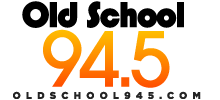 Former logo of radio station KZMJ.